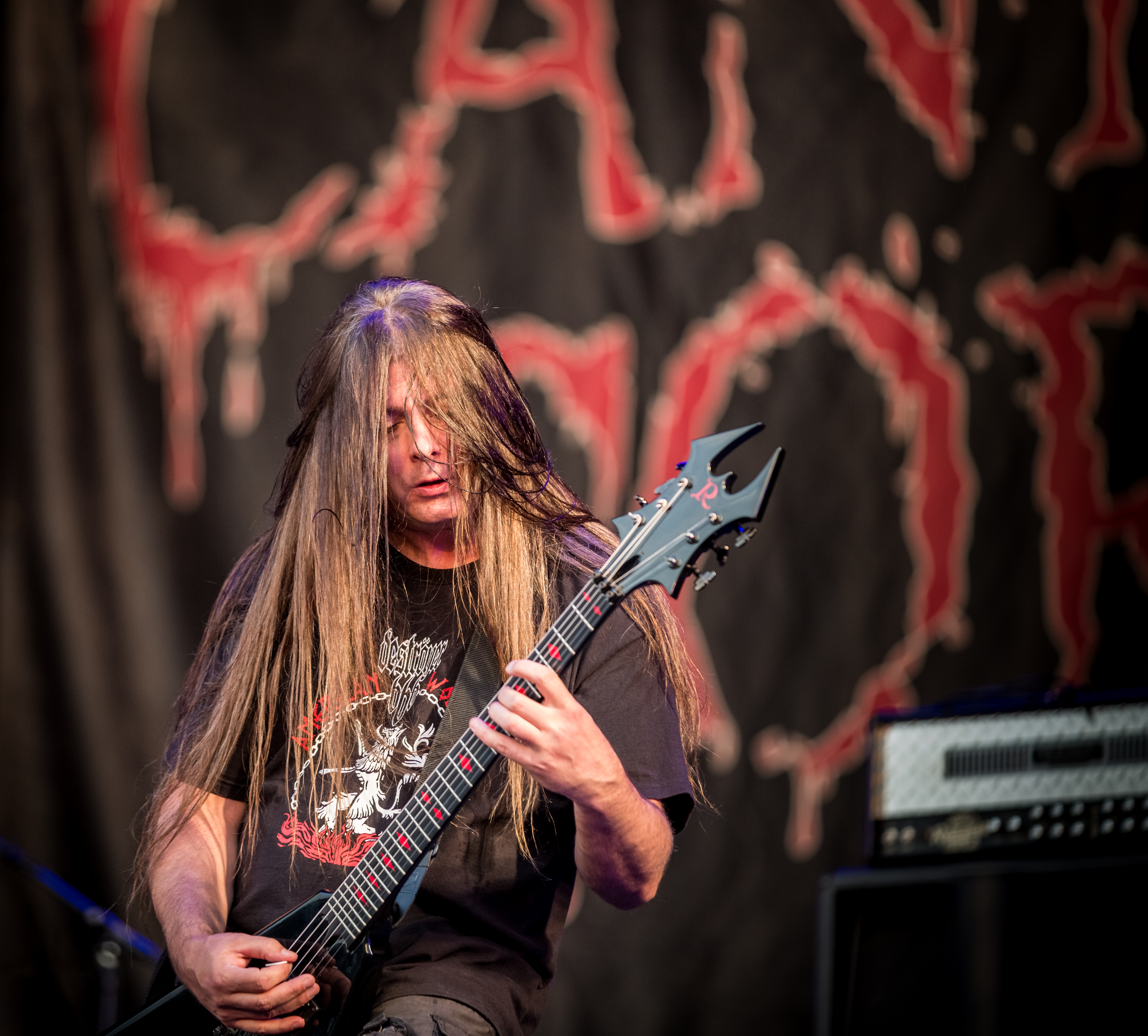 Cannibal Corpse - Wacken Open Air 2015